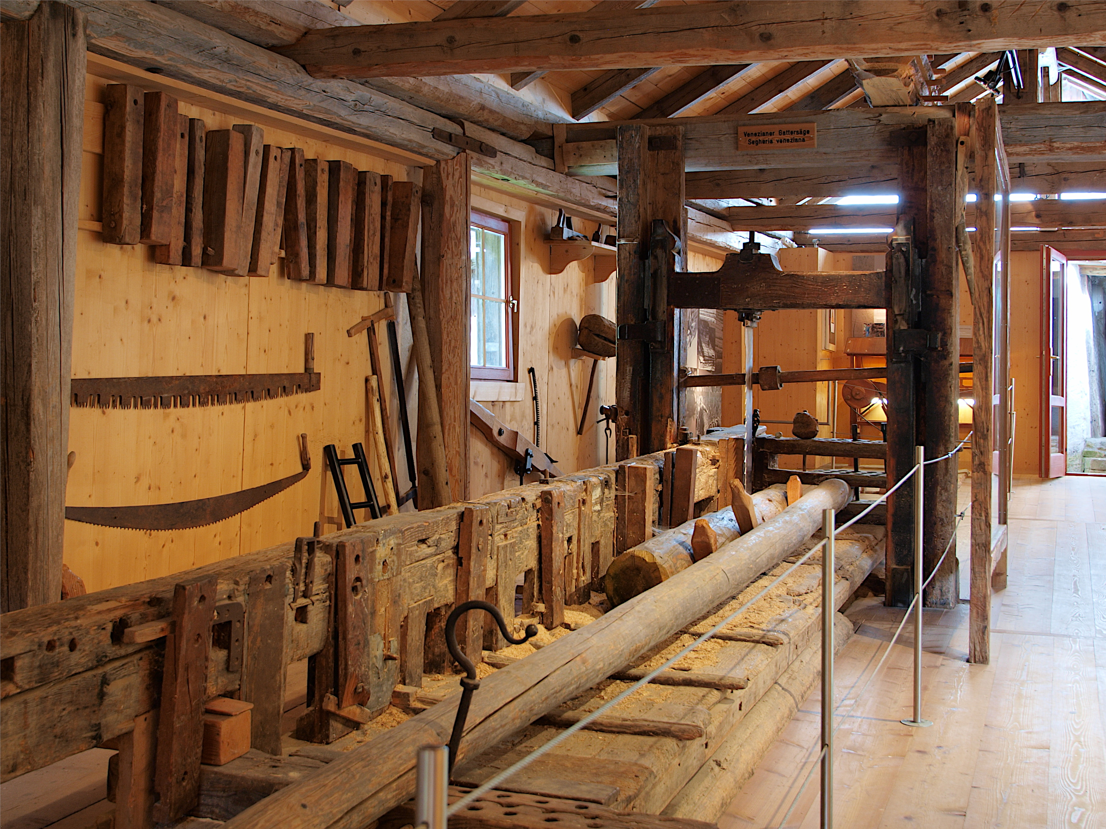 Gang saw "Steger Säge" built at the end of the 17. century. St. Zyprian/ Tirol.